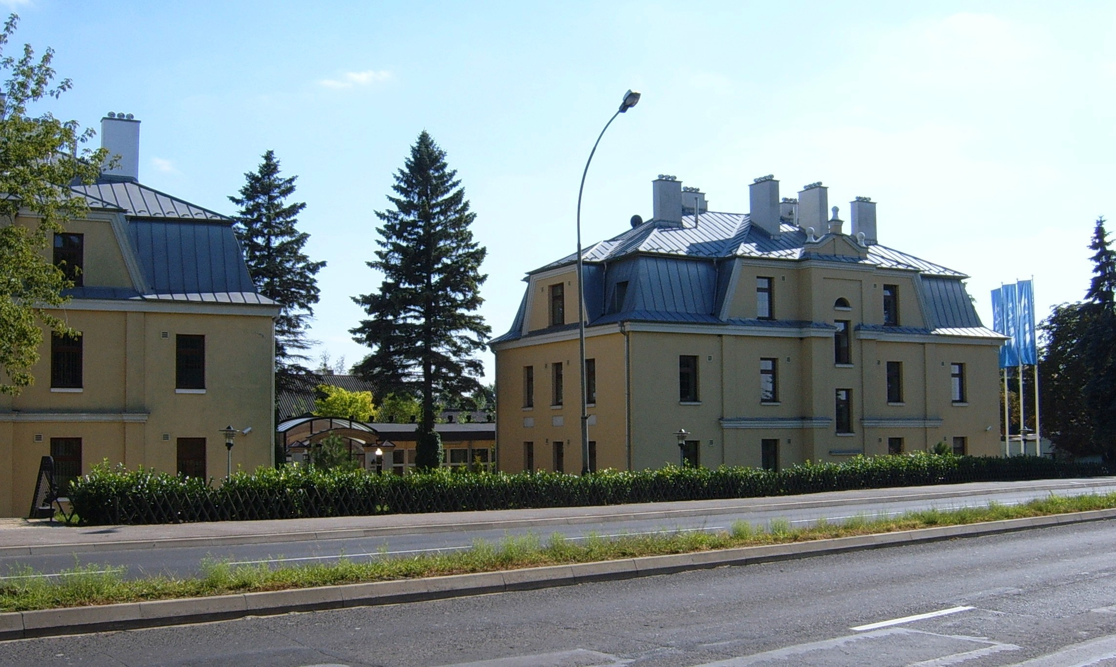 Base of PKP LHS (Broad Gauge Metallurgy Line) company in Zamość